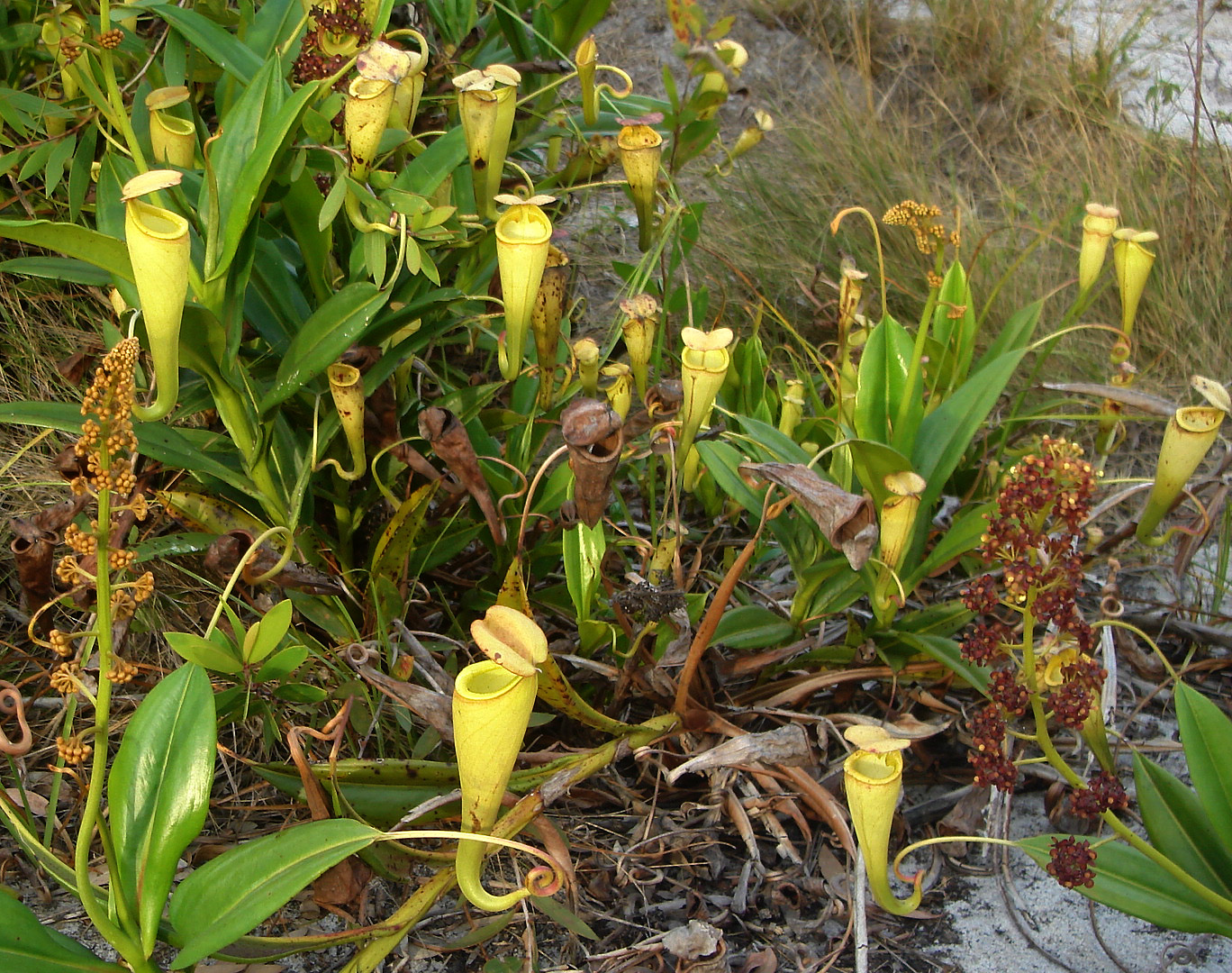 Nepenthes madagascariensis